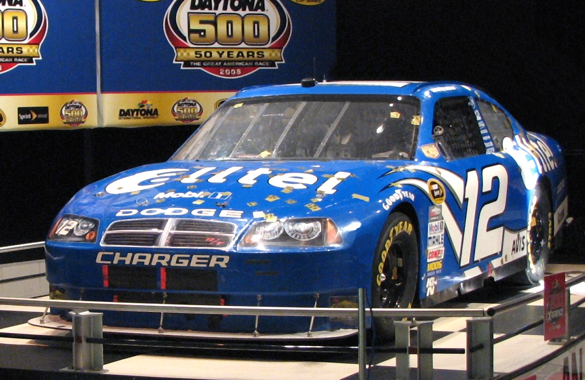 Ryan Newmans #12 after finishing 2008s Daytona 500 at the first position.